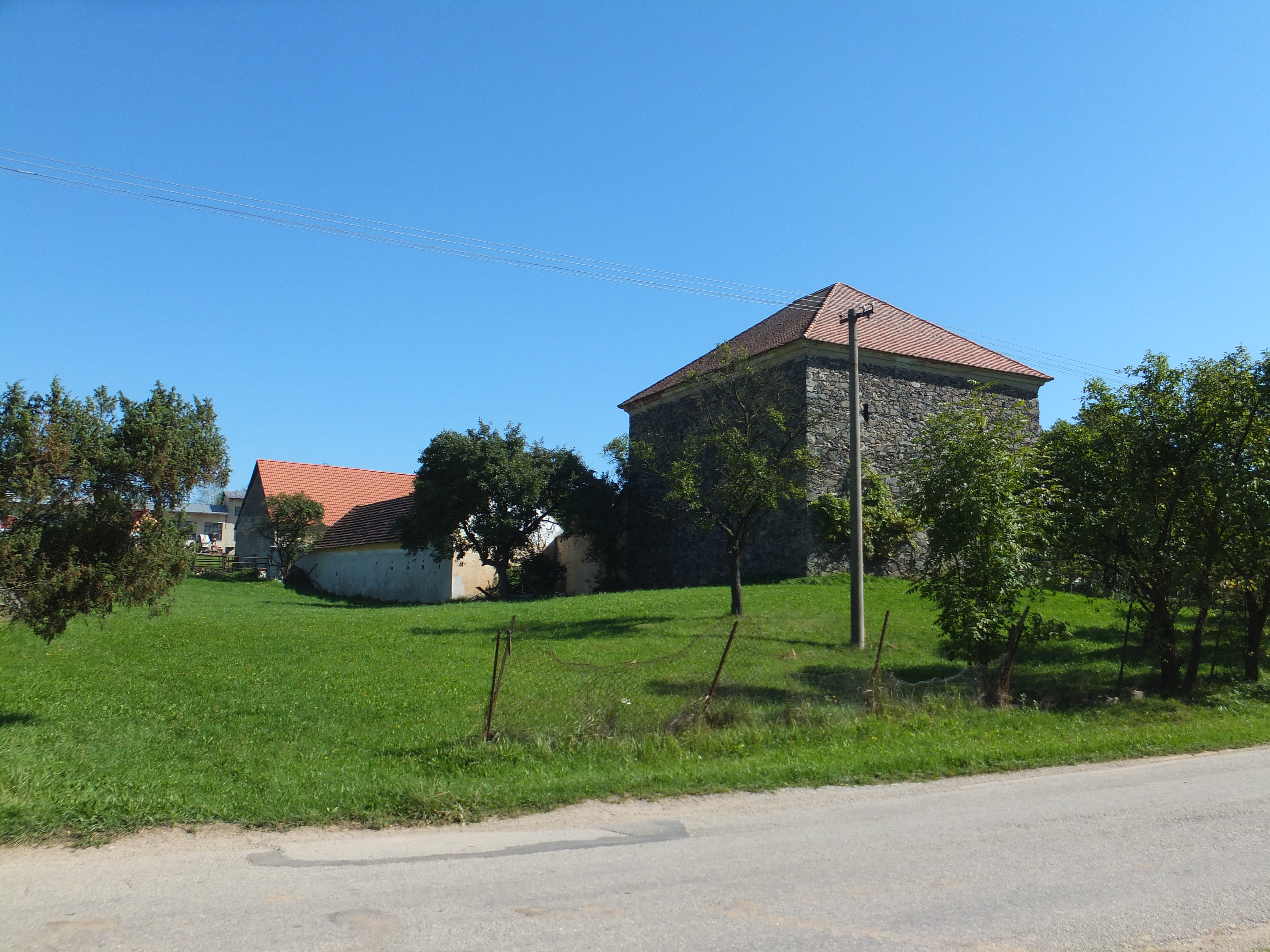 Zvíkov - the stronghold (XV century)